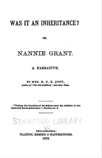 Was it an Inheritance?; Or, Nannie Grant: A Narrative, By Harriet Newell Kneeland Goff